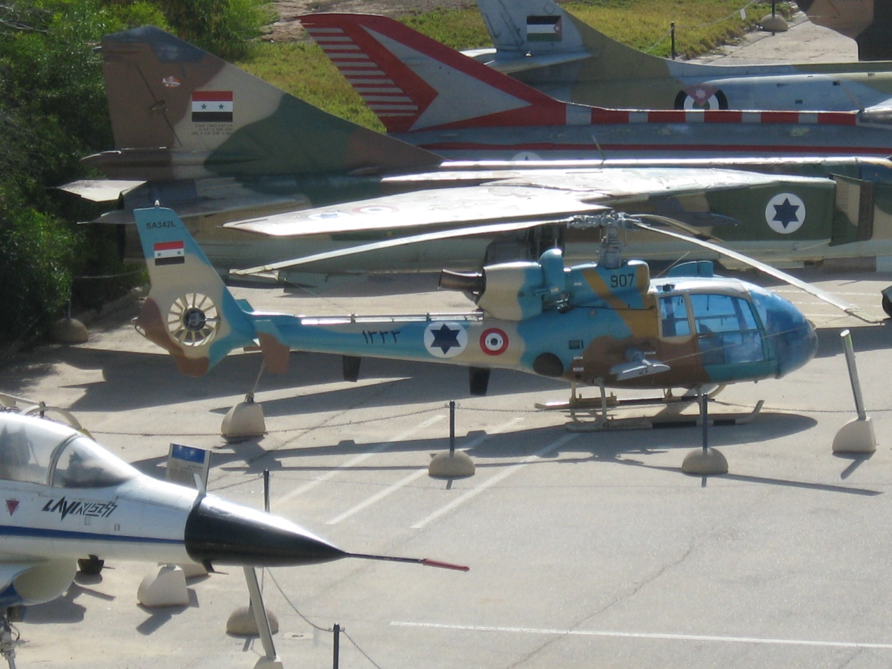 Former Syrian Air Force Aerospatiale Gazelle captured by Israel in 1982. Displayed in the Israeli Air Force museum in Hatzerim. Behind, a former Syrian MiG-23.